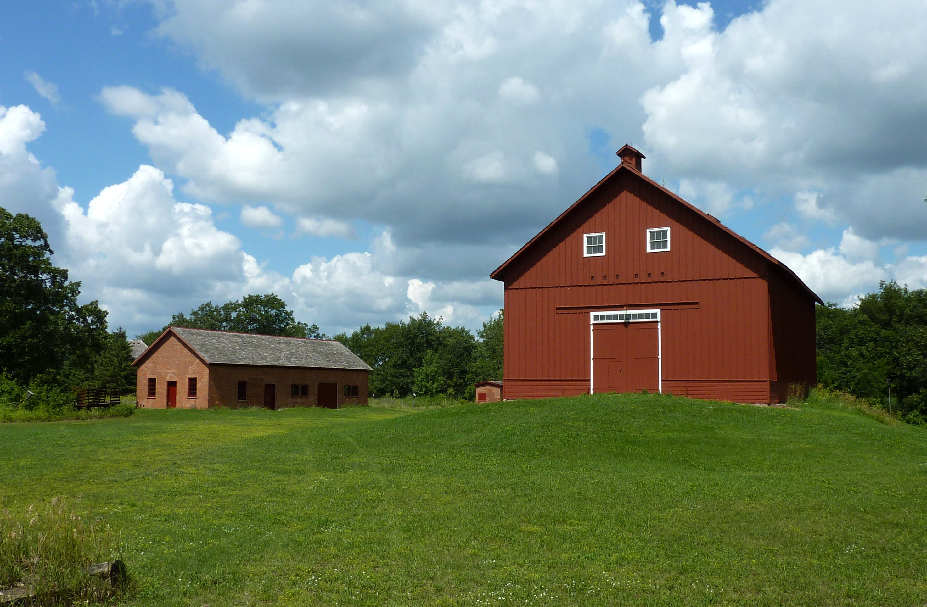 View of James J. Hill's North Oaks Farm, including the barn-shaped granary and Blacksmith Shop and Machine Shop, North Oaks, Minnesota, USA.